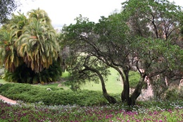 Gaslamp Quarter in downtown San Diego